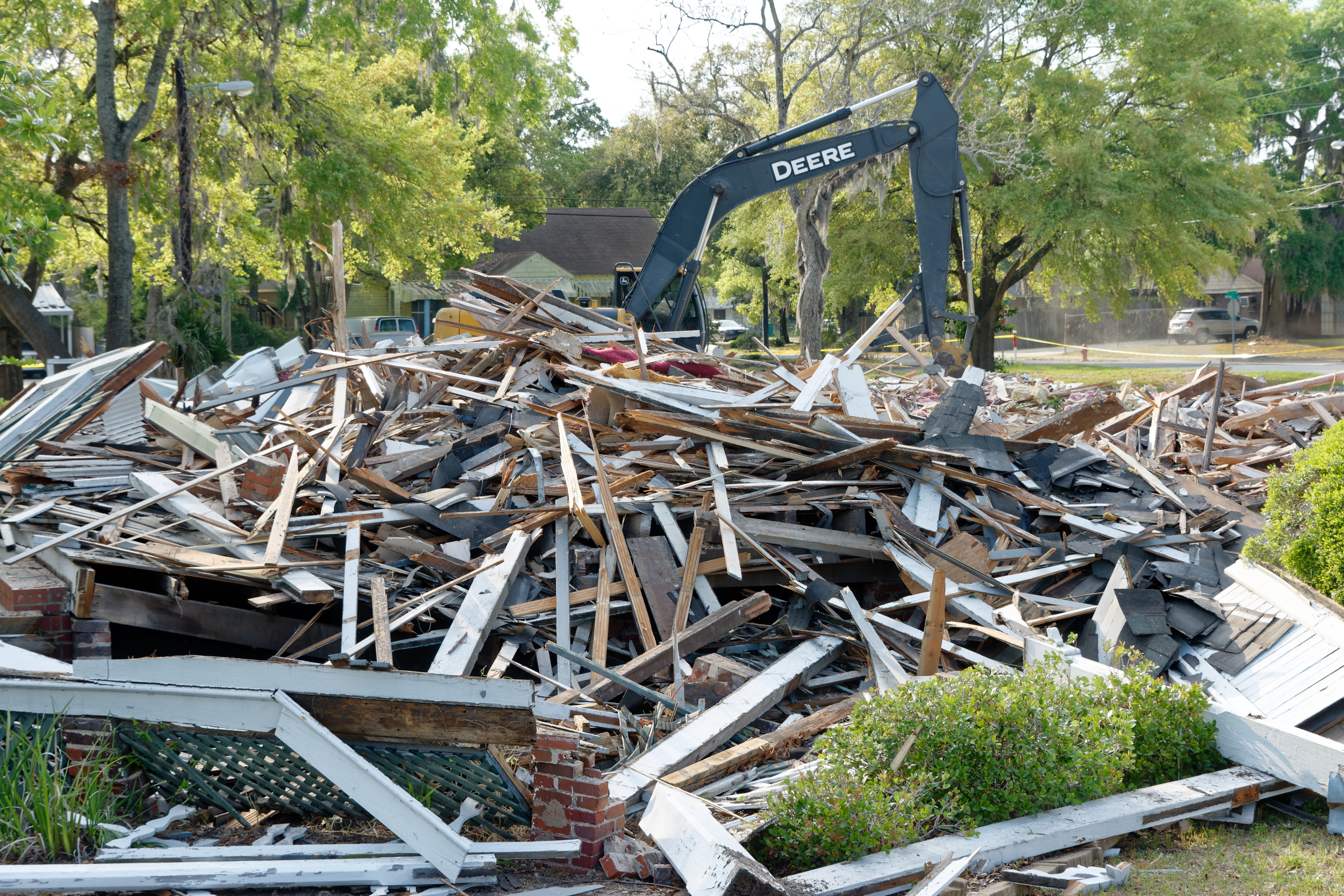 The Dart House(1877) in Brunswick, Georgia, U.S. - after being demolished